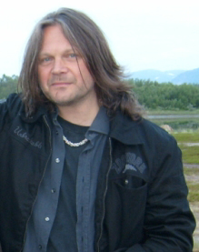 Mic Michaeli, the keyboardist in the Swedish hard rock band Europe at Midnattsrocken in Lakselv, Norway on July 12, 2008.